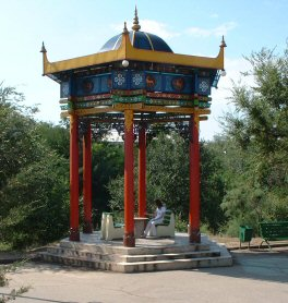 A public chess set in the center of Elista, Kalmykia, Russia